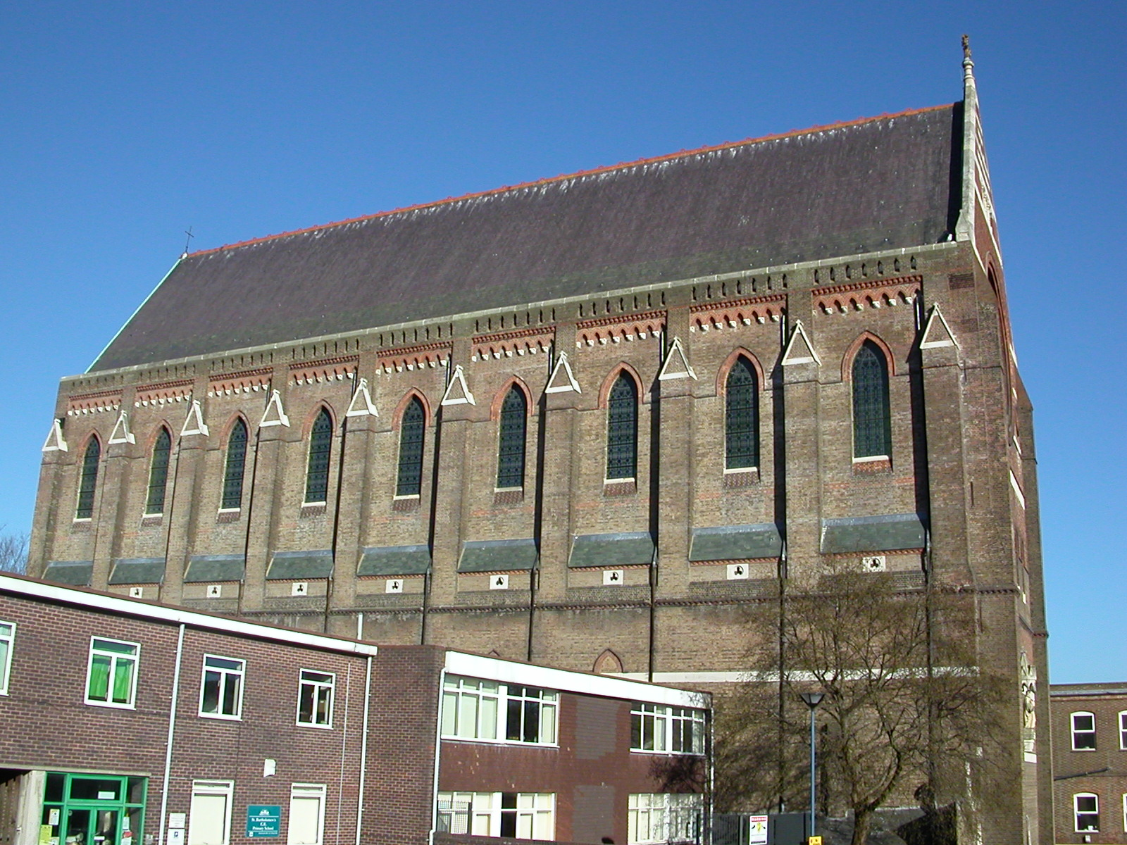 View of the west side of St Bartholomew's church, Brighton. Photographed on 3rd February 2007.